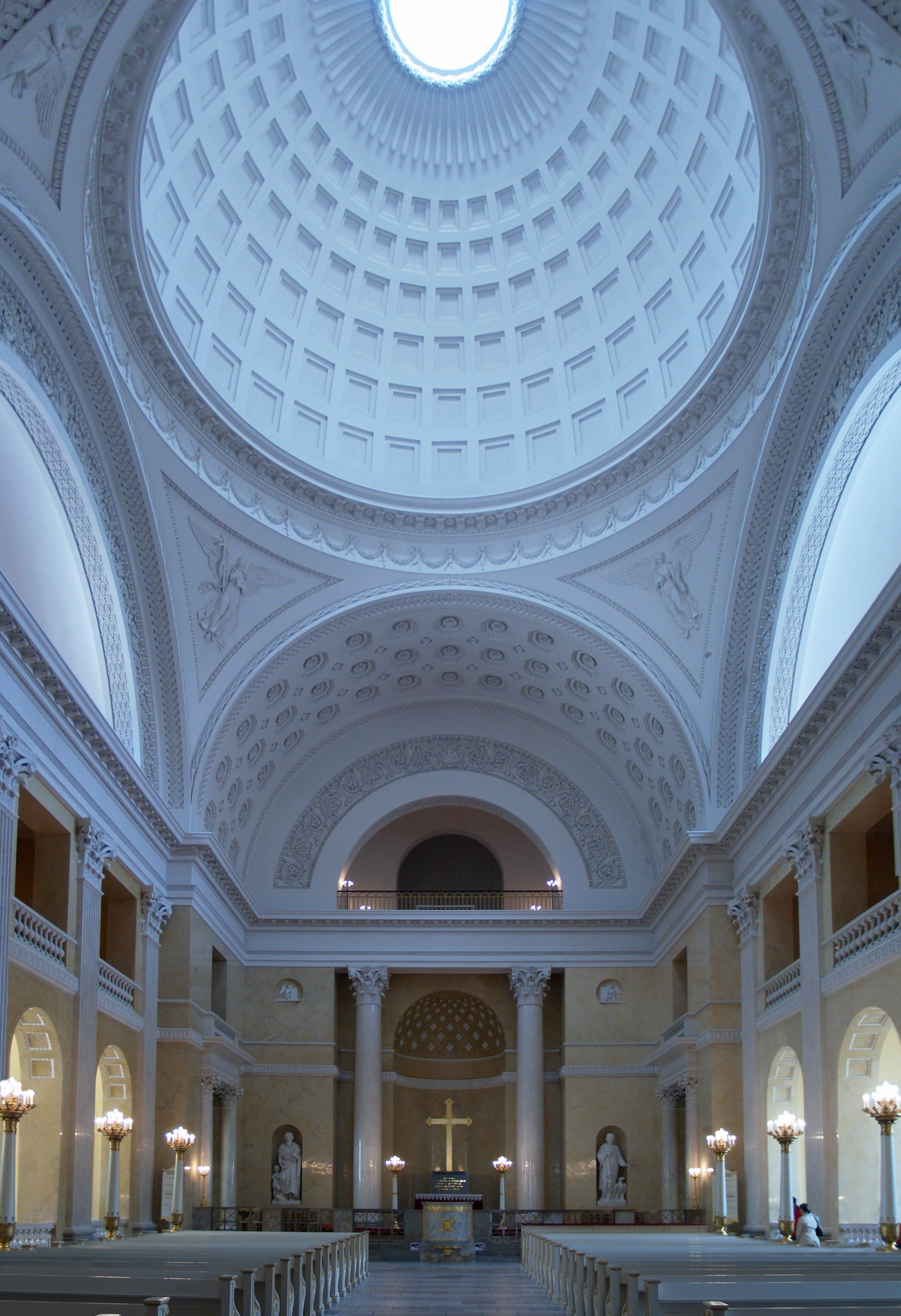 Christiansborg palace church, copenhagen, 1810-1826. Architect: c.f. hansen, 1756-1845.